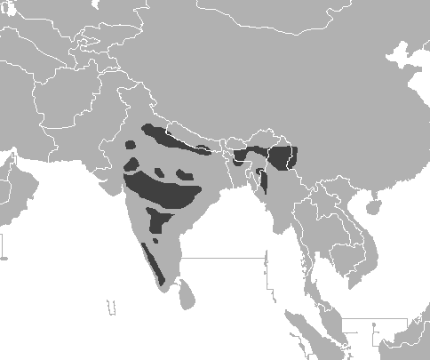 Map of Panthera tigris tigris scattering